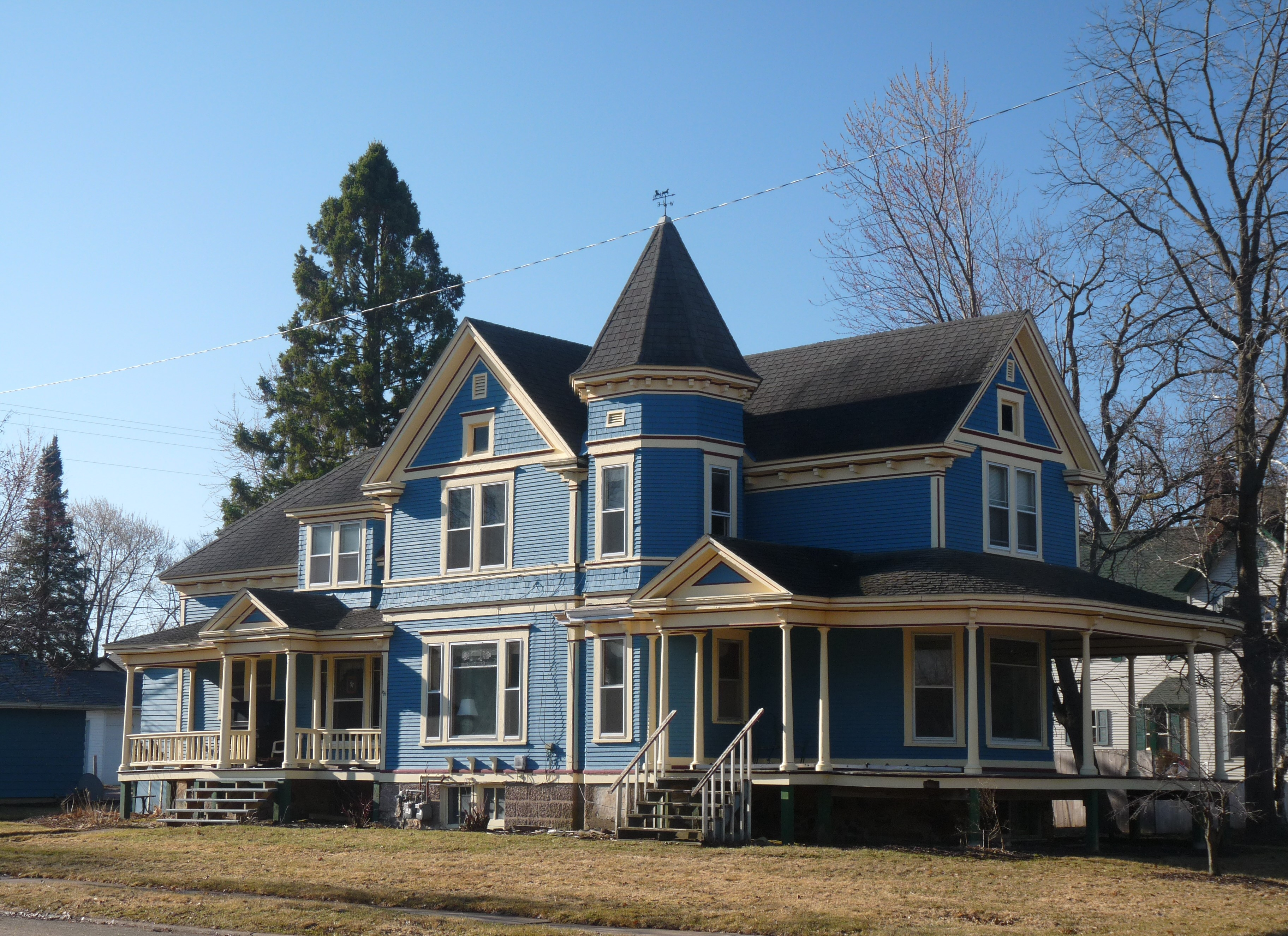 The Frank Cady house in Marshfield, Wisconsin's Pleasant Hill Historic District, is a Queen Anne-styled house built in 1898.